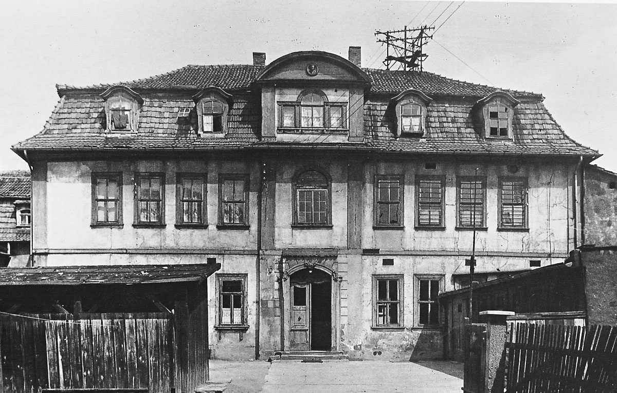 Gotha, Salzengasse, Prinzenhaus (demolished in 1981)